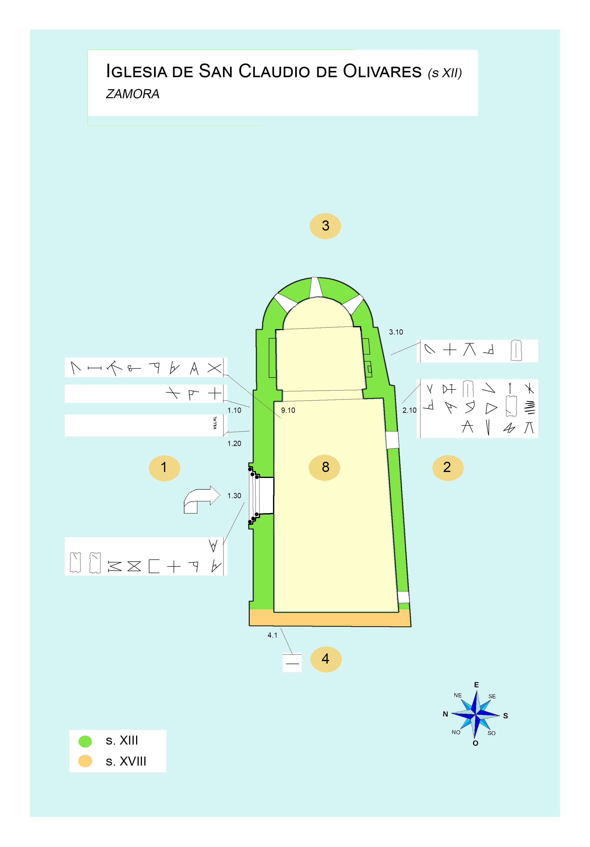 San Claudio de Olivares church, ZAMORA (Zamora), romanesque s. XII. Plan appro. and stonecutter mark catalog.